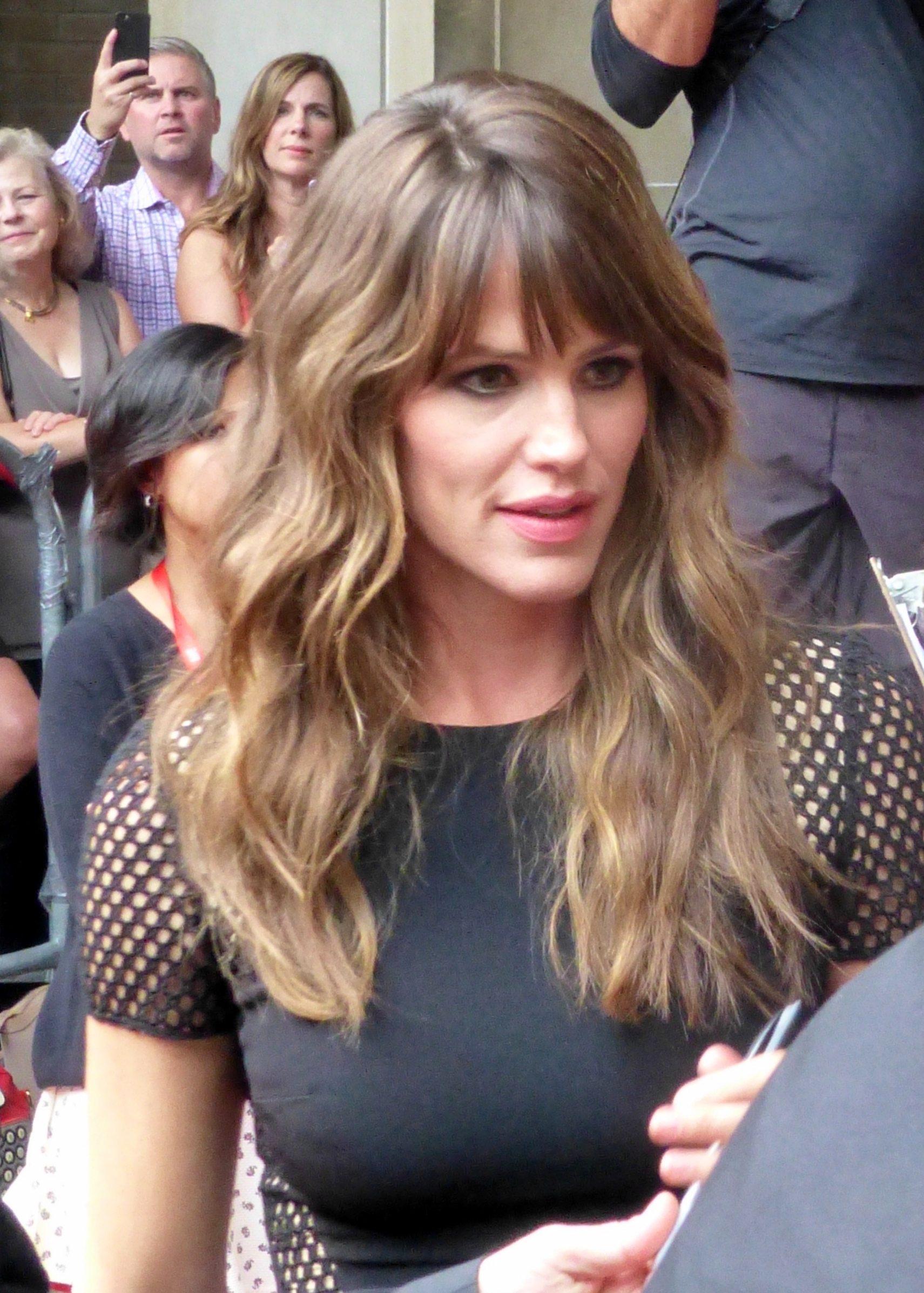 Jennifer Garner at the premiere of Men, Women, and Children, 2014 Toronto Film Festival